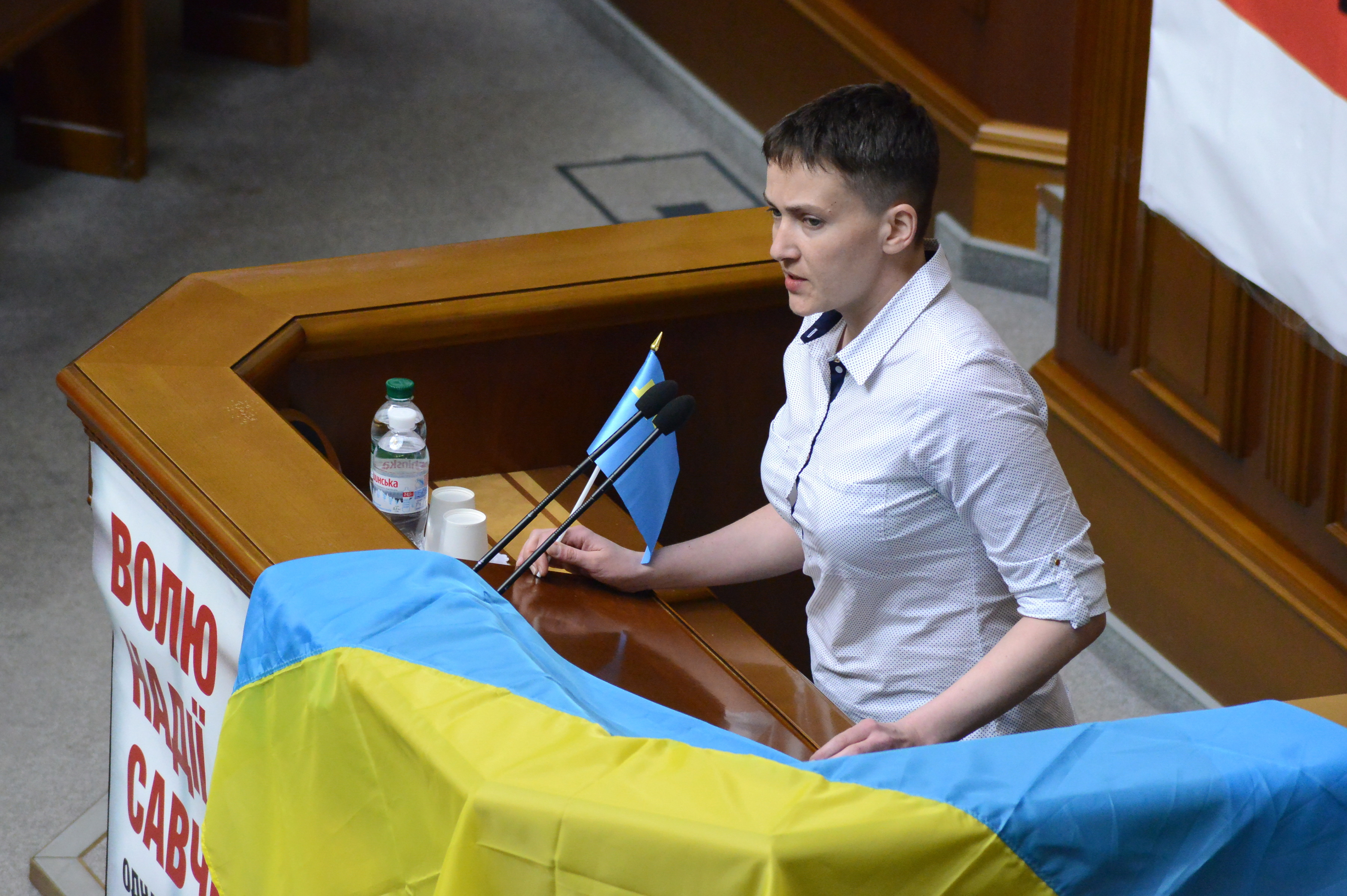 The Parliament of Ukraine, 31.05.16 Photo by Vadim Chuprina